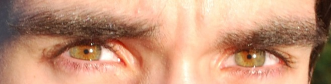 Close up of green eyes with central heterochromia (forest green)